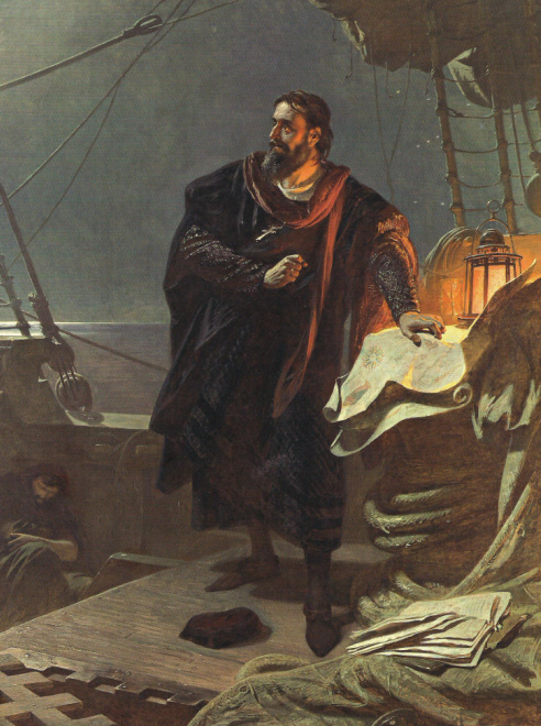 Christopher Columbus, by Carl von Piloty